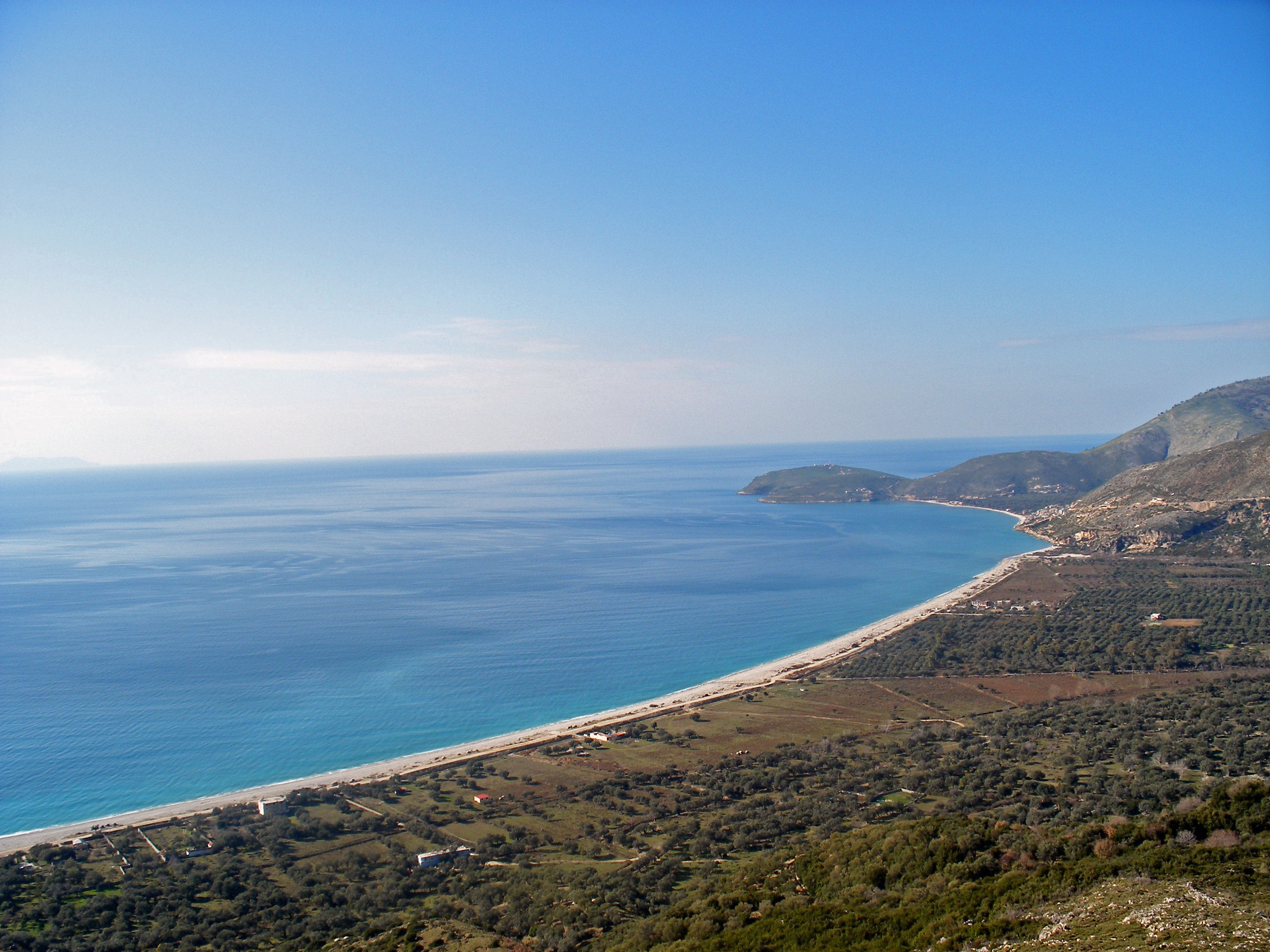 Albanian Riviera near Borsh, Delvinë District